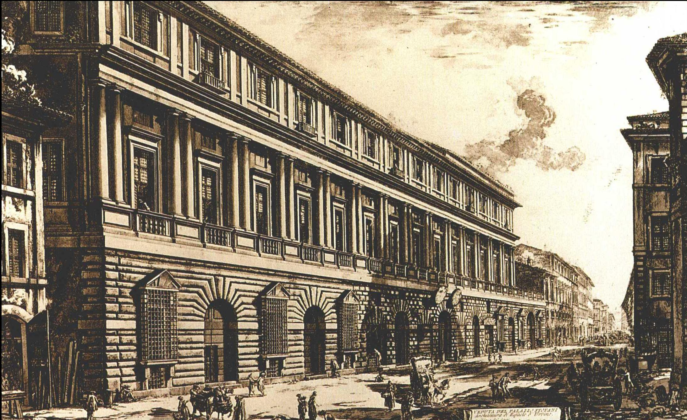 Palazzo Vidoni Caffarelli